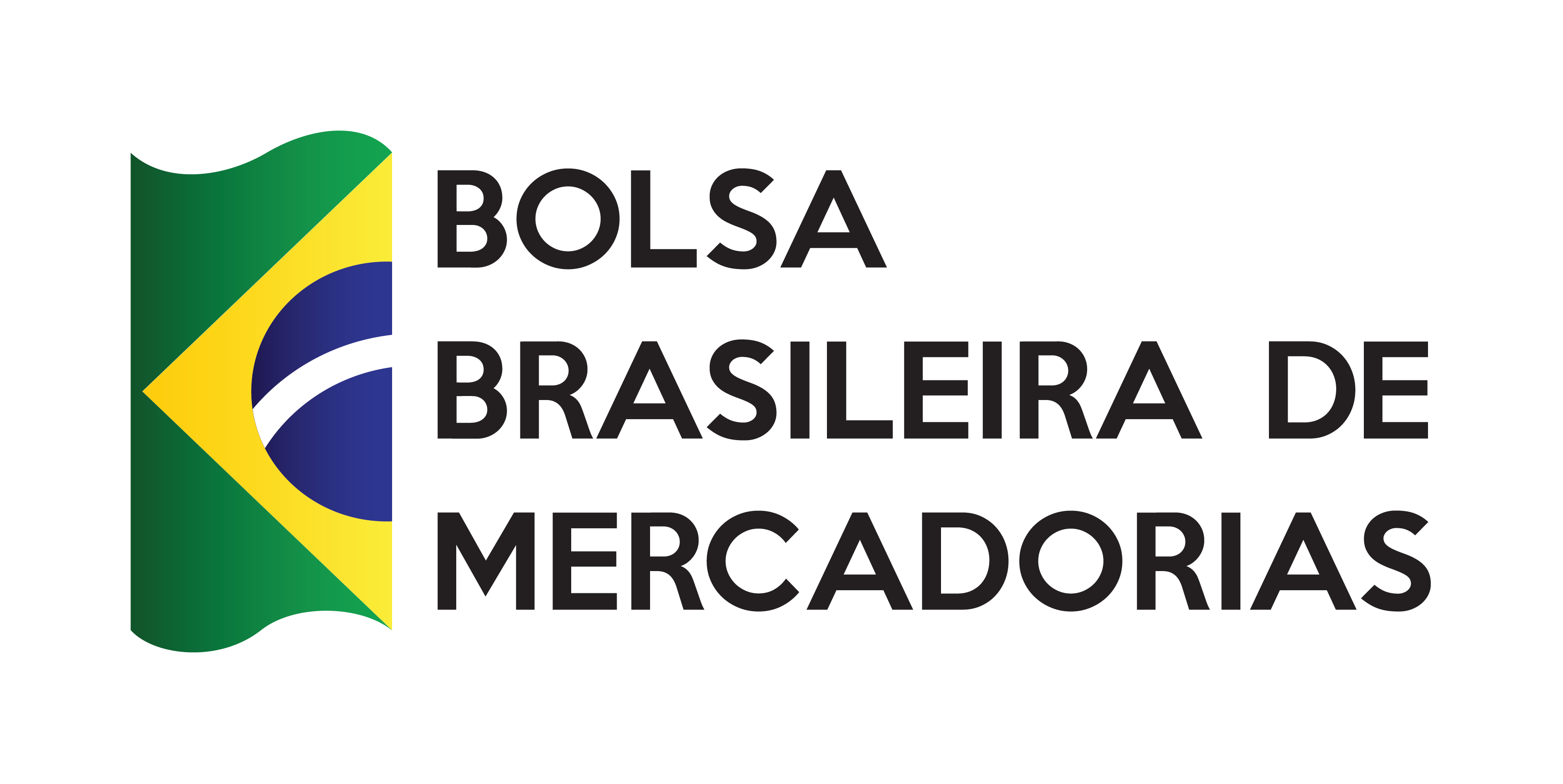 Logo of the Brazilian Stock Exchange BBM